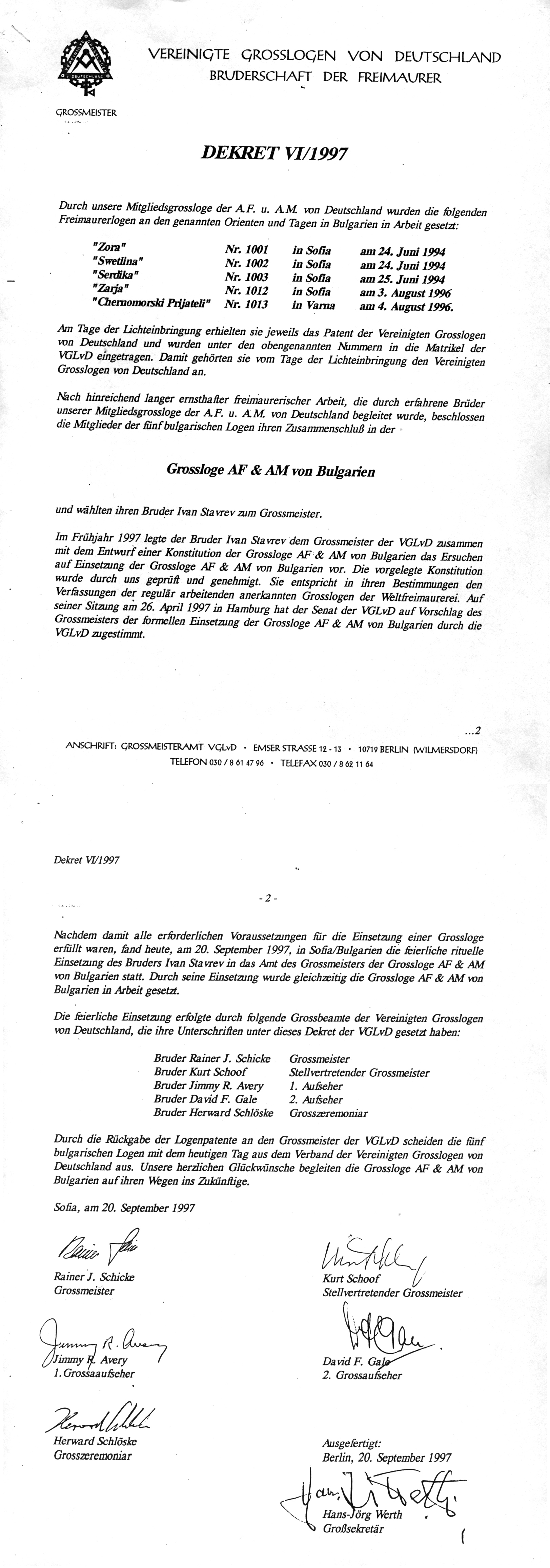 The Grand Lodge of the Ancient Free and Accepted Masons in Bulgaria - Consecration act issued by Grand Lodge of Ancient Free & Accepted Masons of Germany, part of the United Grand Lodges of Germany